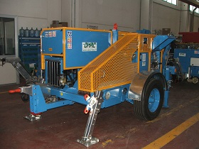 Hydraulic puller with capstans made by Omac